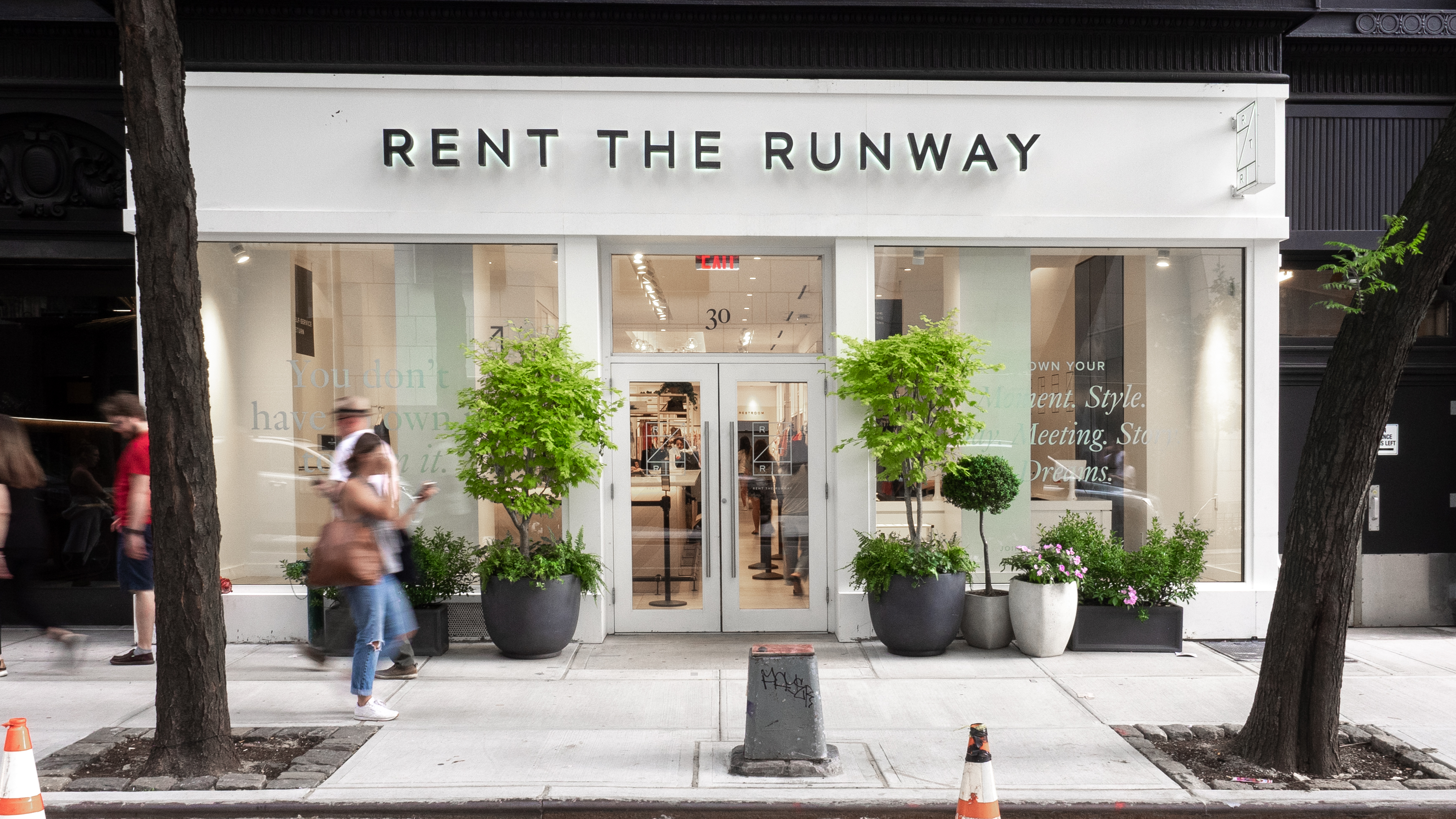 Chelsea, NYC